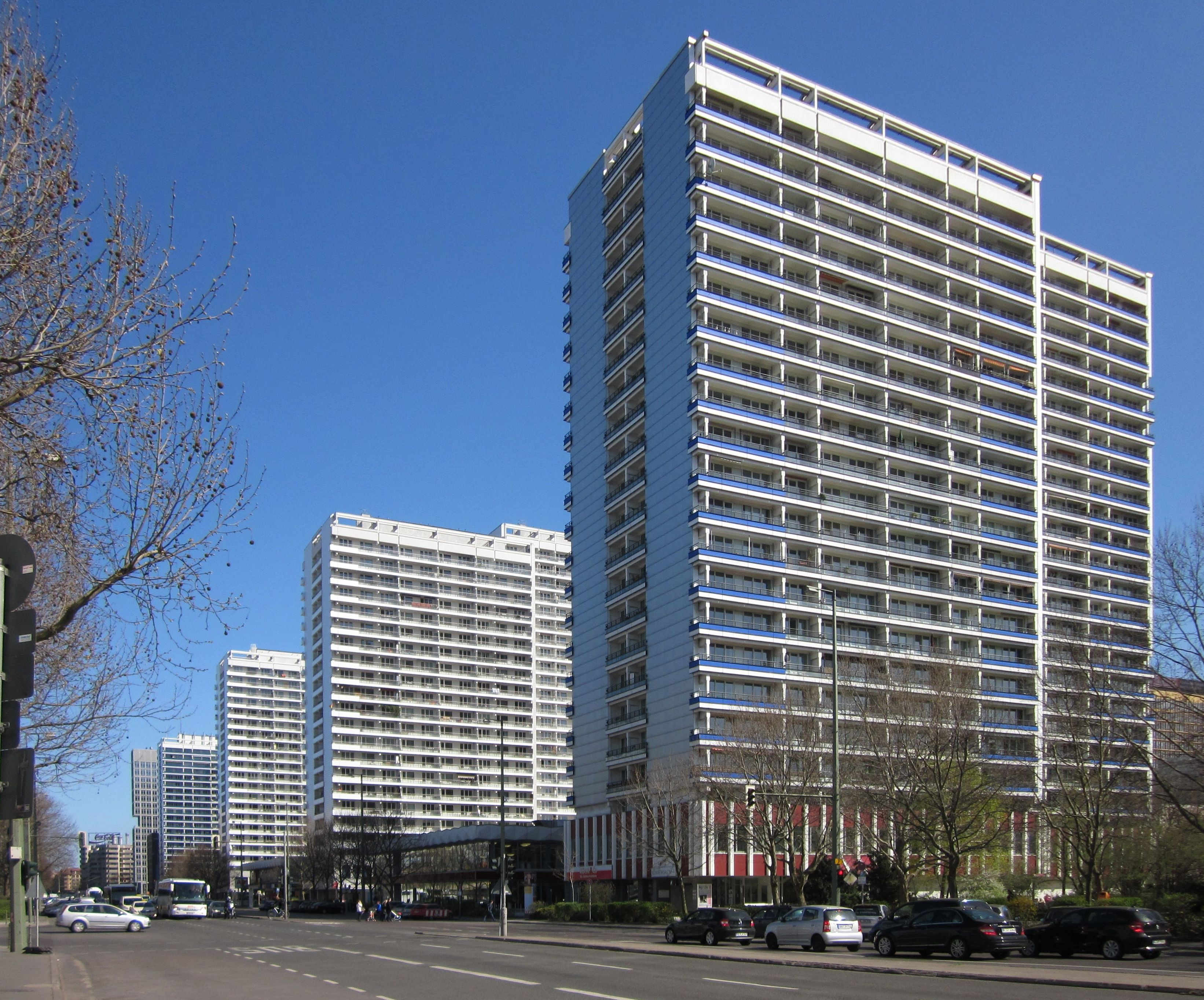 High-rise apartment buildings of the "Komplex Leipziger Straße" in Berlin-Mitte.